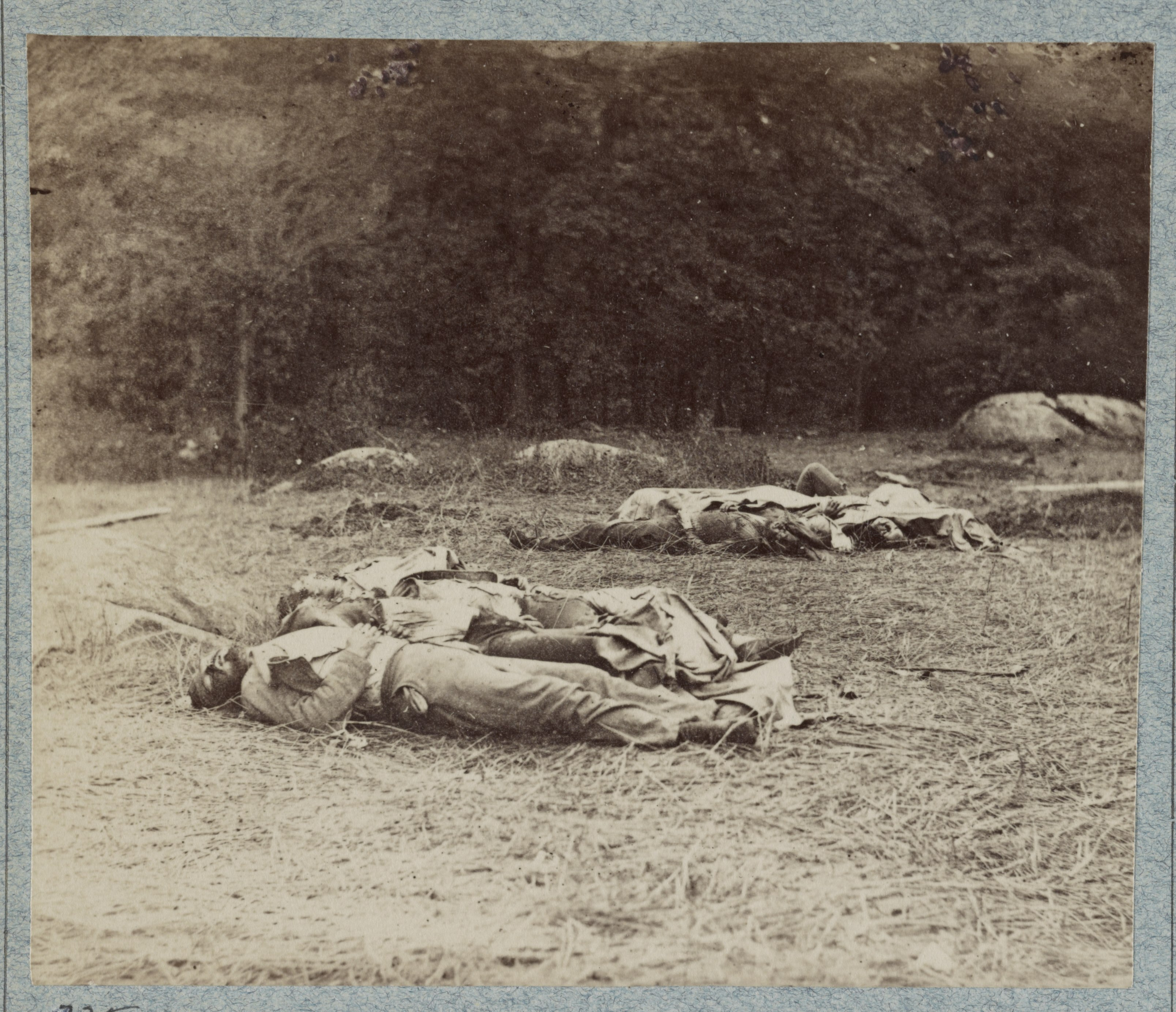 Title: Confederate soldiers as they fell near the center of the battlefield of Gettysburg Abstract/medium: 1 photographic print : albumen ; 8.3 x 9.6 cm (photo)